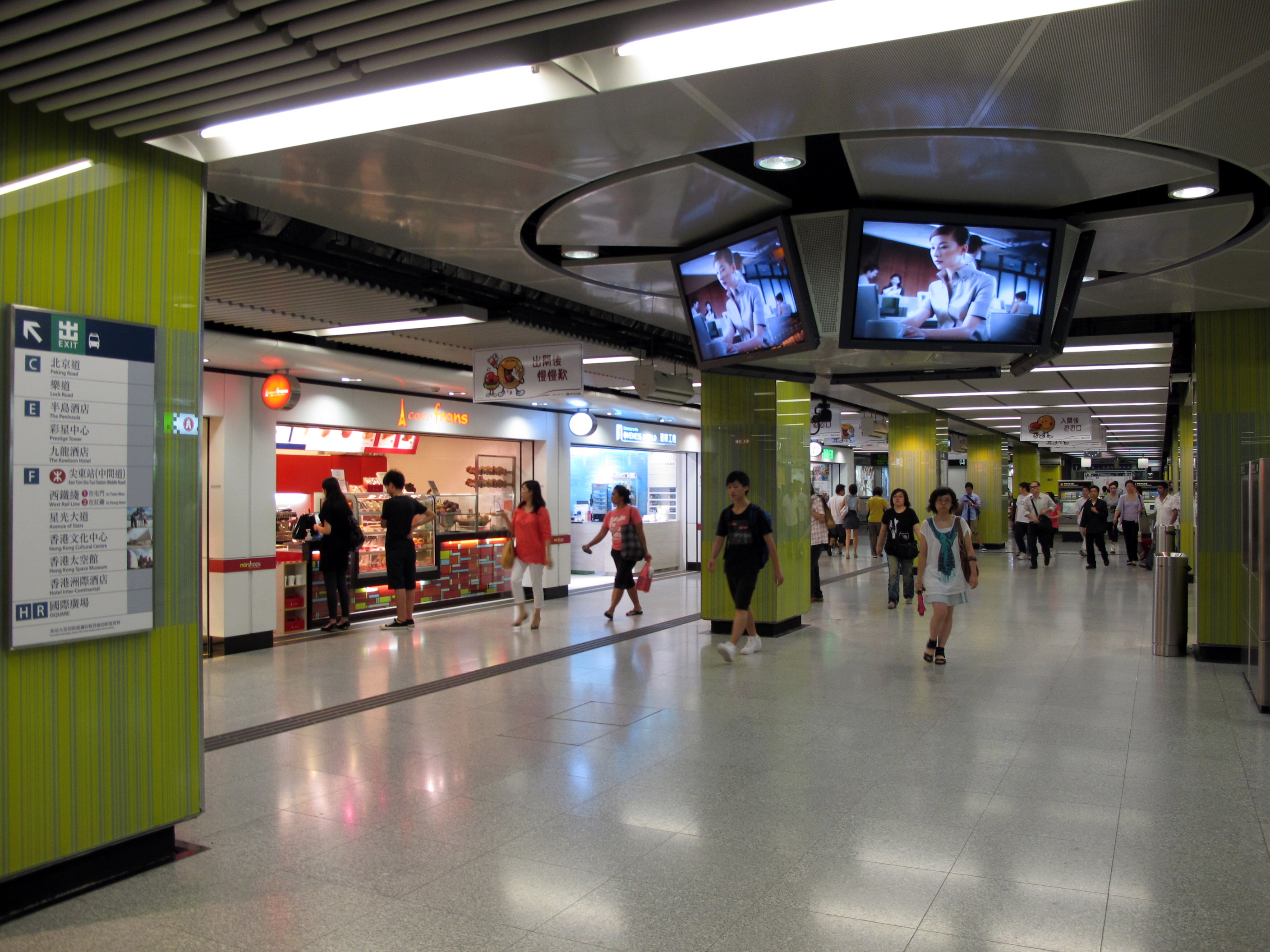 Tsim Sha Tsui Station Concourse 尖沙咀站大堂